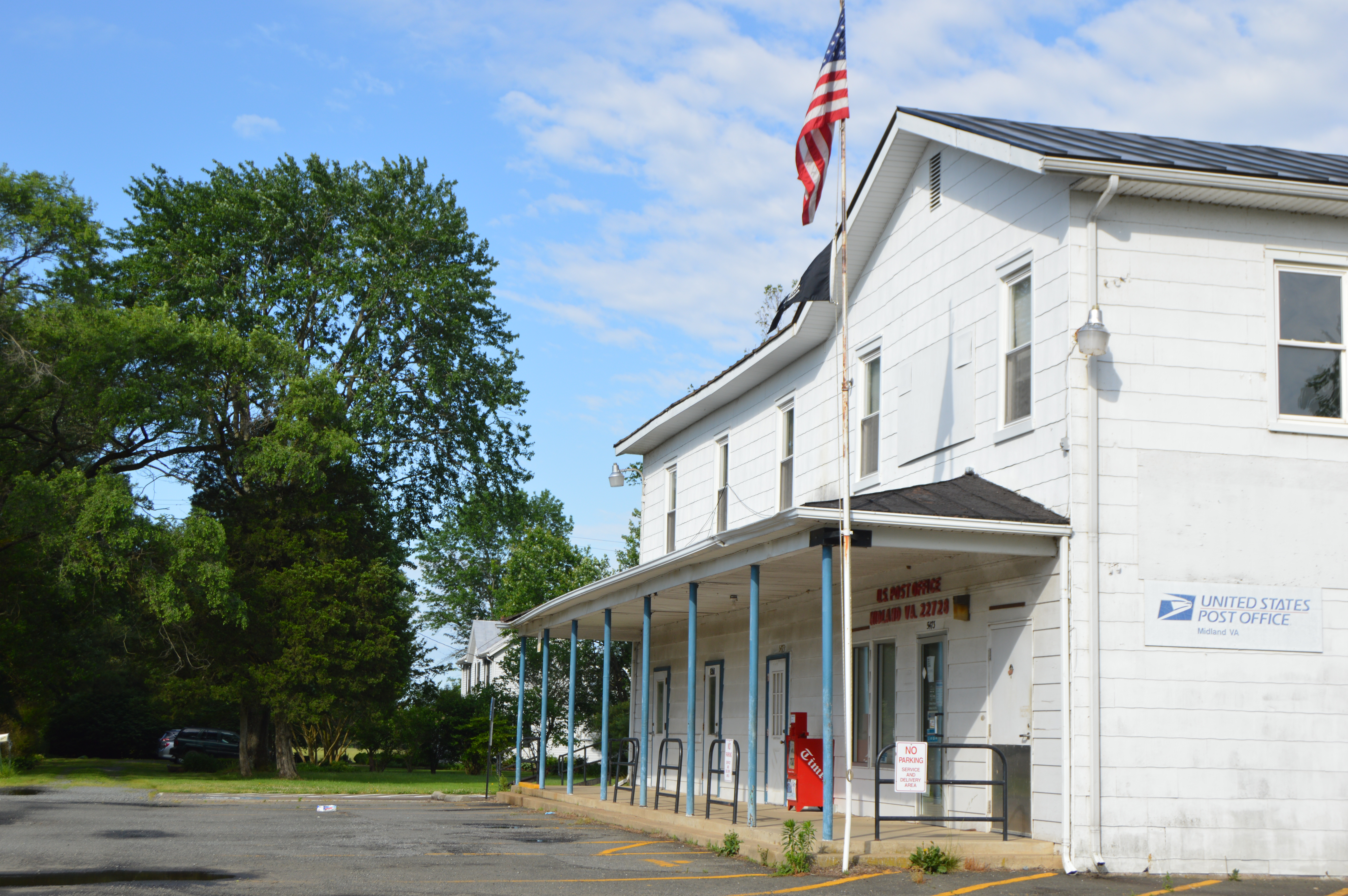 Front of the Midland post office, located at 5473 Midland Road at Midland in Fauquier County, Virginia, United States. Built in 1880, it is part of the Midland Historic District, a historic district that is listed on the National Register of Historic Places.